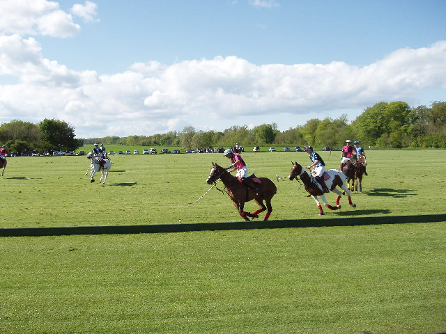 Polo at Cirencester Park. Cirencester Park Polo Club is the oldest in the UK, founded 1894. The photo was taken at the Cheltenham College Polo Invitation Day, showing Old Cheltonians v. Old Etonians